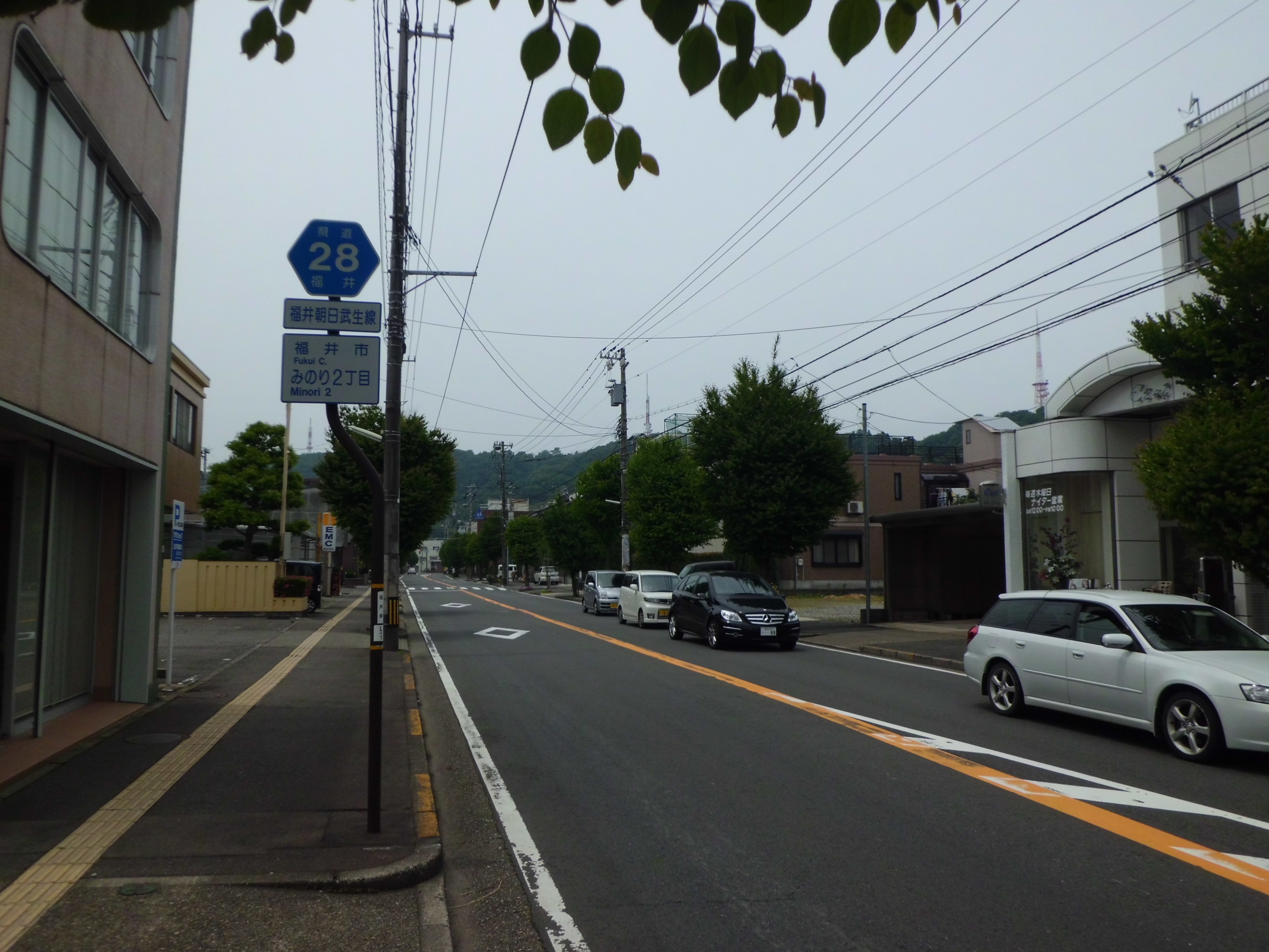 Fukui prefectural road 28 Fukui-Asahi-Takefu line. Looking west from Shinkida intersection, Fukui city.